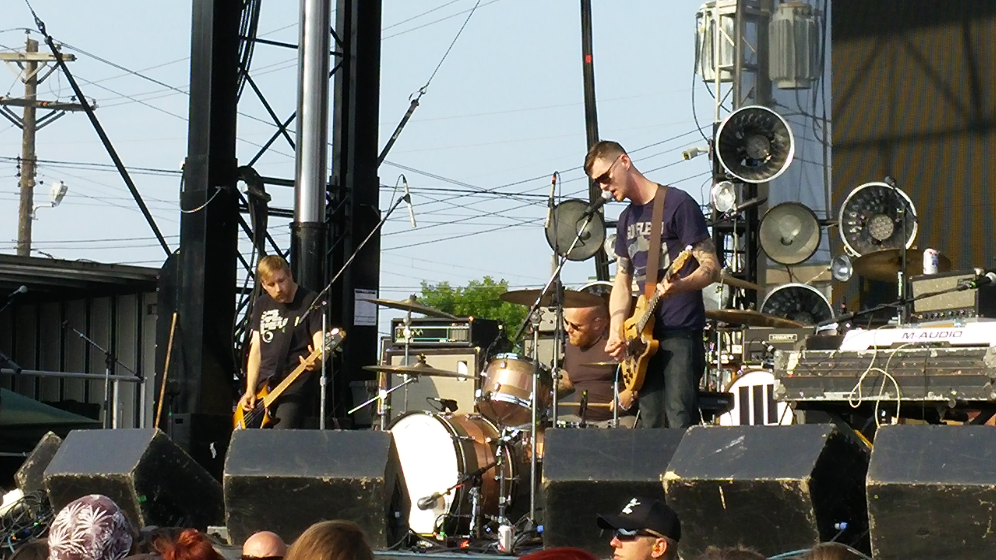 Cloakroom (band) performing at Cabooze in Minneapolis, MN on June 30th, 2015.